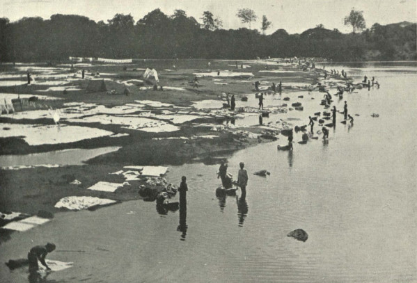 Dhobies at Work at Saidape